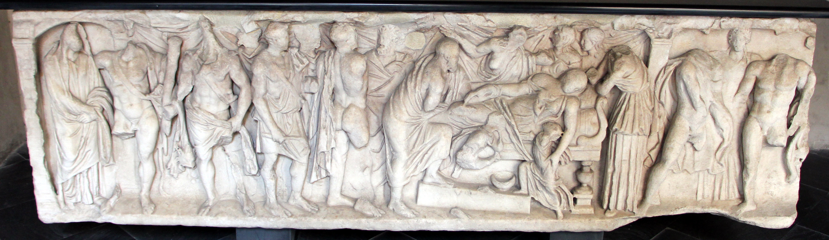 Sarcofago con la morte di fedra del II sec., da tomba di incisa vivaldi (1304) fuori s.m. delle vigne.JPG The making of this document was supported by Wikimedia CH. (Submit your project!) For all the files concerned, please see the category Supported by Wikimedia CH.